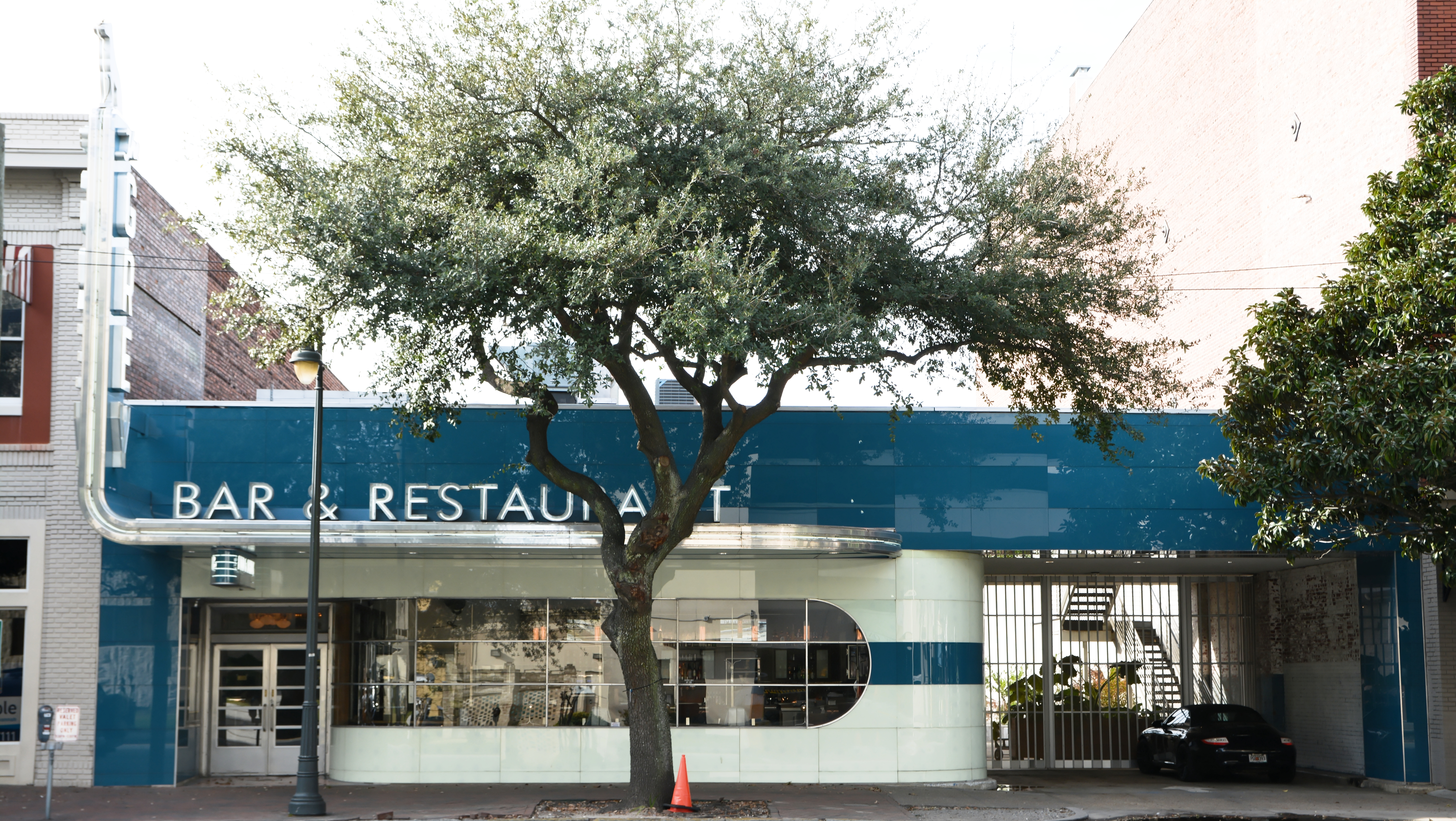 Atlantic Greyhound Bus Terminal in Savannah, Georgia, U.S. It now houses The Grey Bar and Resturant.